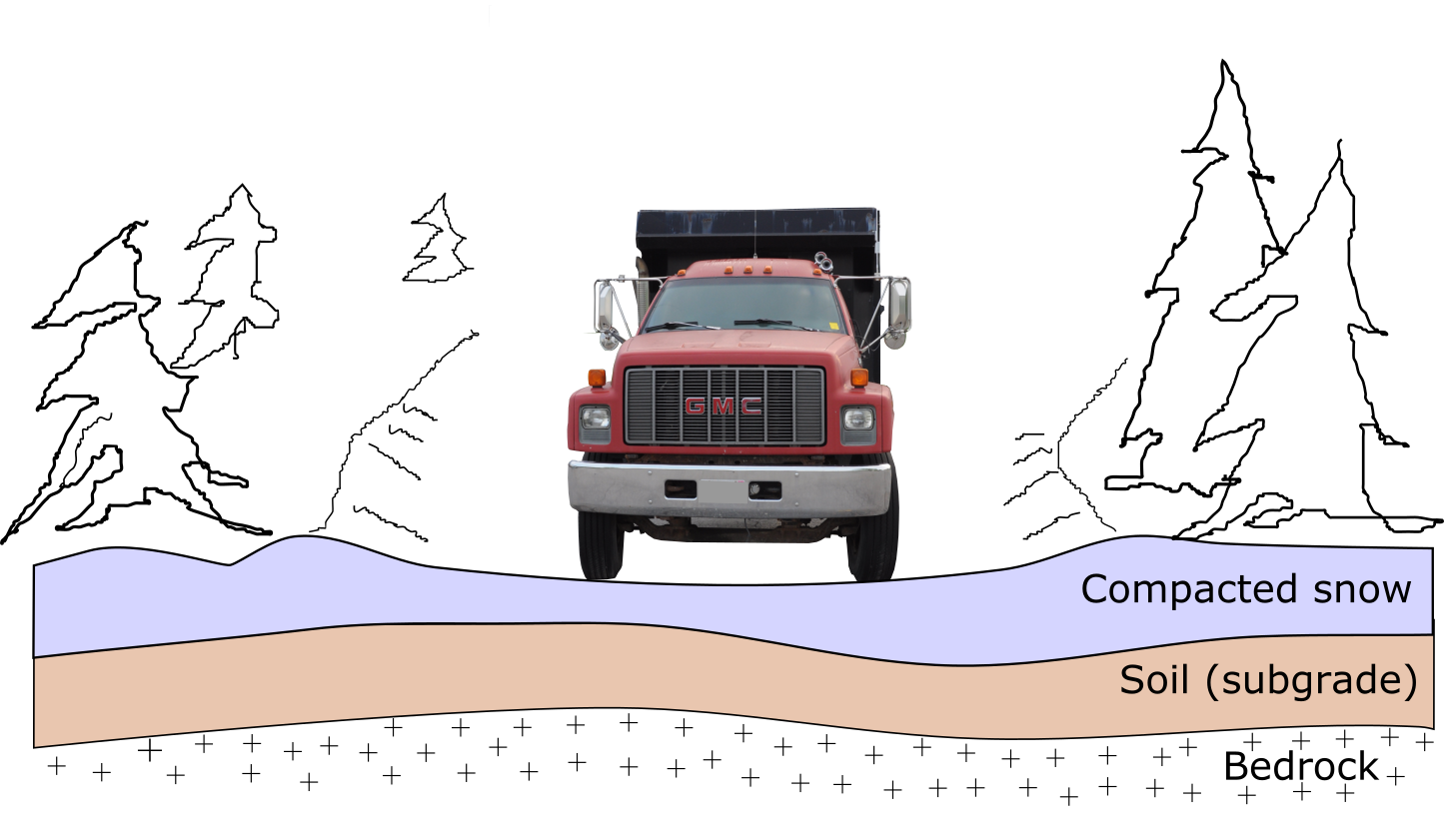 Simplistic drawing of compacted snow above a subgrade, used for winter transportation.